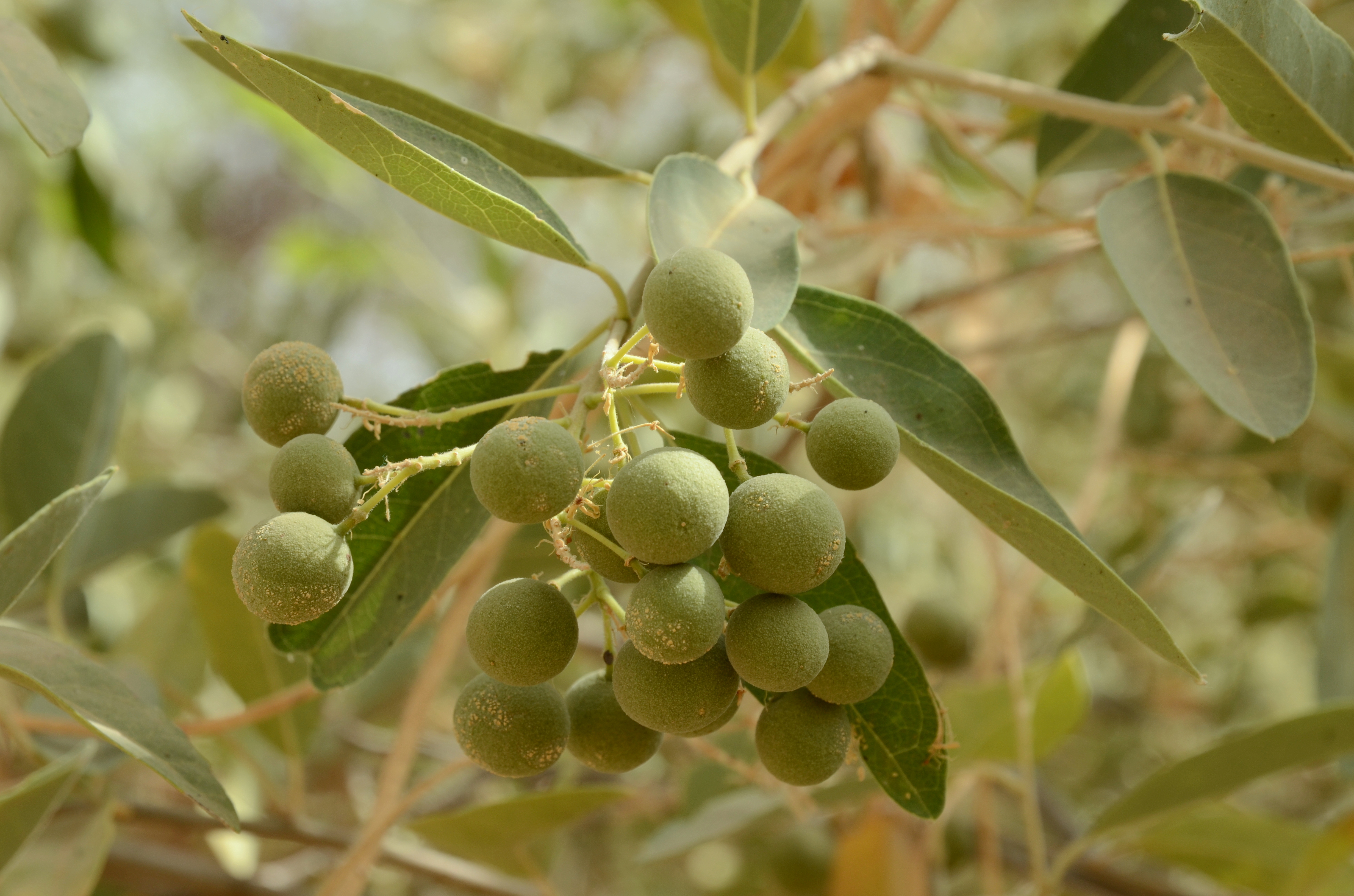 Photo of the unripe fruits of Boscia senegalensis, taken in the region of Zinder, Republic of Niger, April 2013.